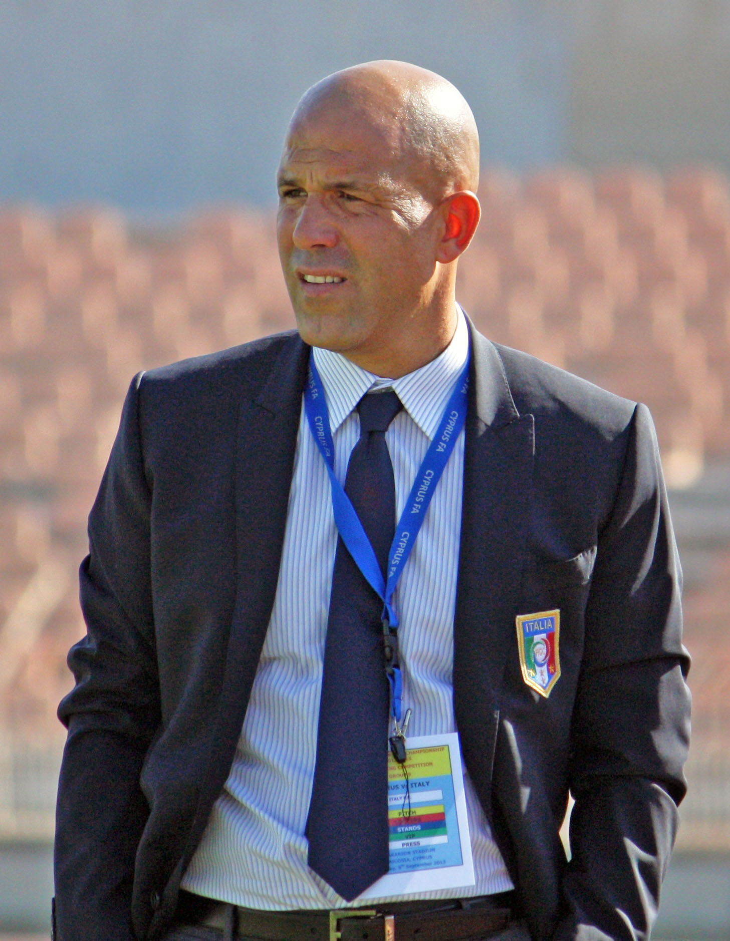 Italian football manager and former footballer Luigi "Gigi" Di Biagio as coach of the Italy U-21 team.